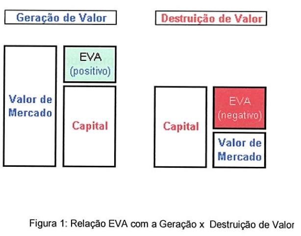 EVA - Economic Value Added